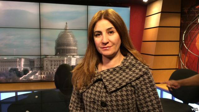 Vian Dakhil is the only Yazidi member of the Iraqi Parliament. She has been working to help tens of thousands of other Yazidis who are trapped in areas overrun by the Islamic State militants or who have fled the militants. She visited VOA's Kurdish Service, Dec. 11, 2014.